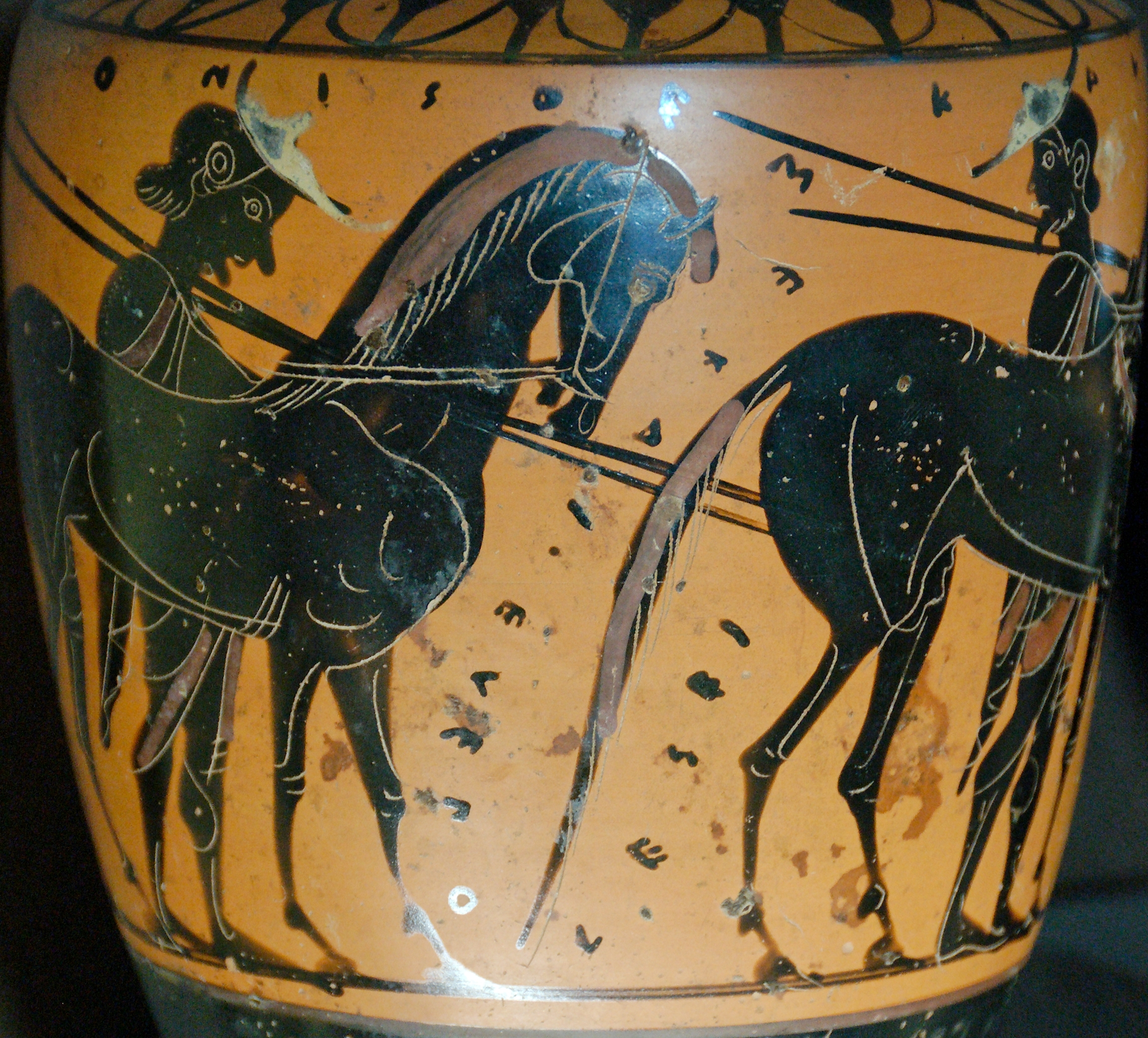 A man and a youth, each leading a horse. Advertising catch phrase: “buy me and you'll get a good bargain”. Attic black-figured lekythos.